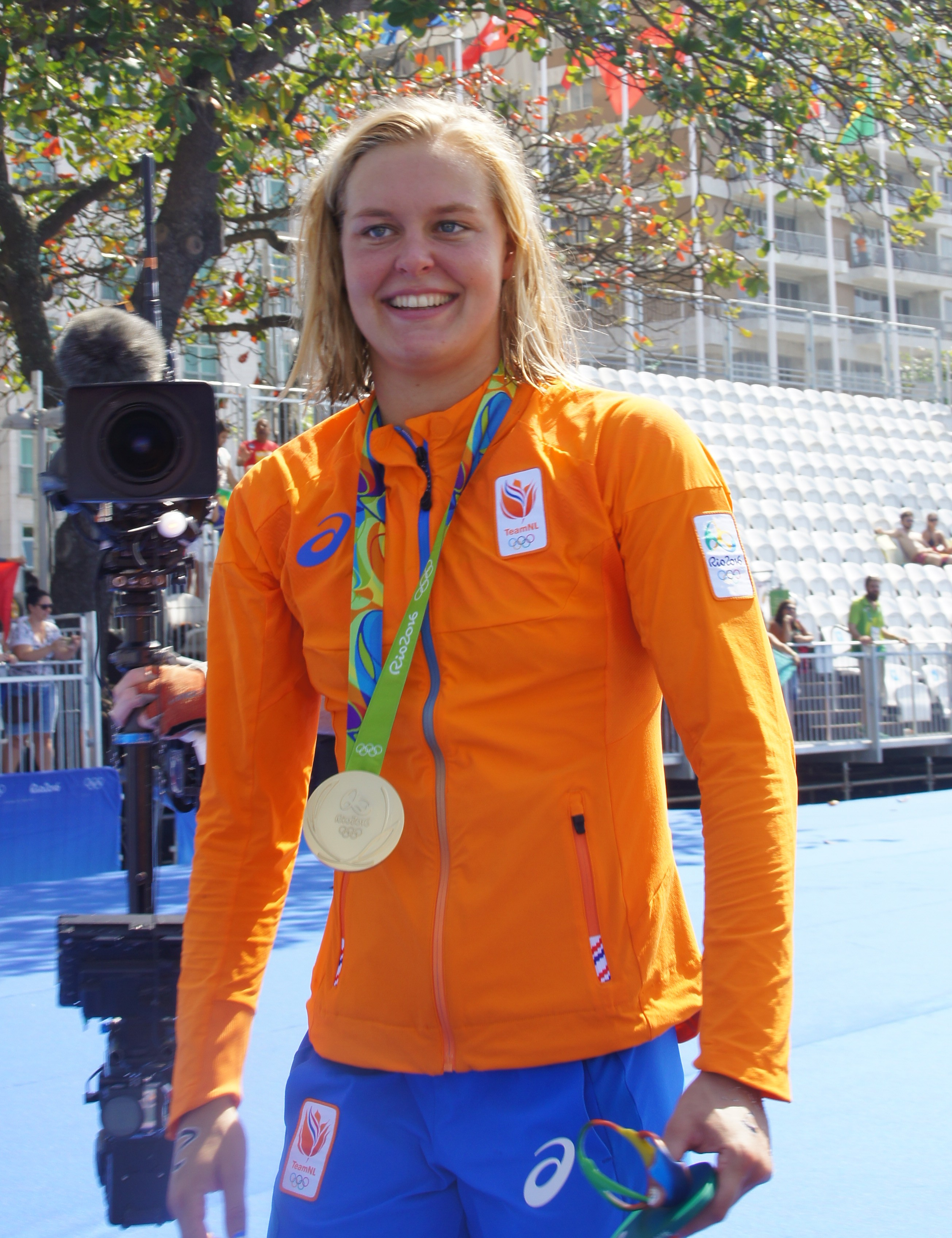 Medalha de ouro/Gold medalist: Sharon van Rouwendaal. Holanda/Nethertlands slt.a33 Marathon swimming Netherlands